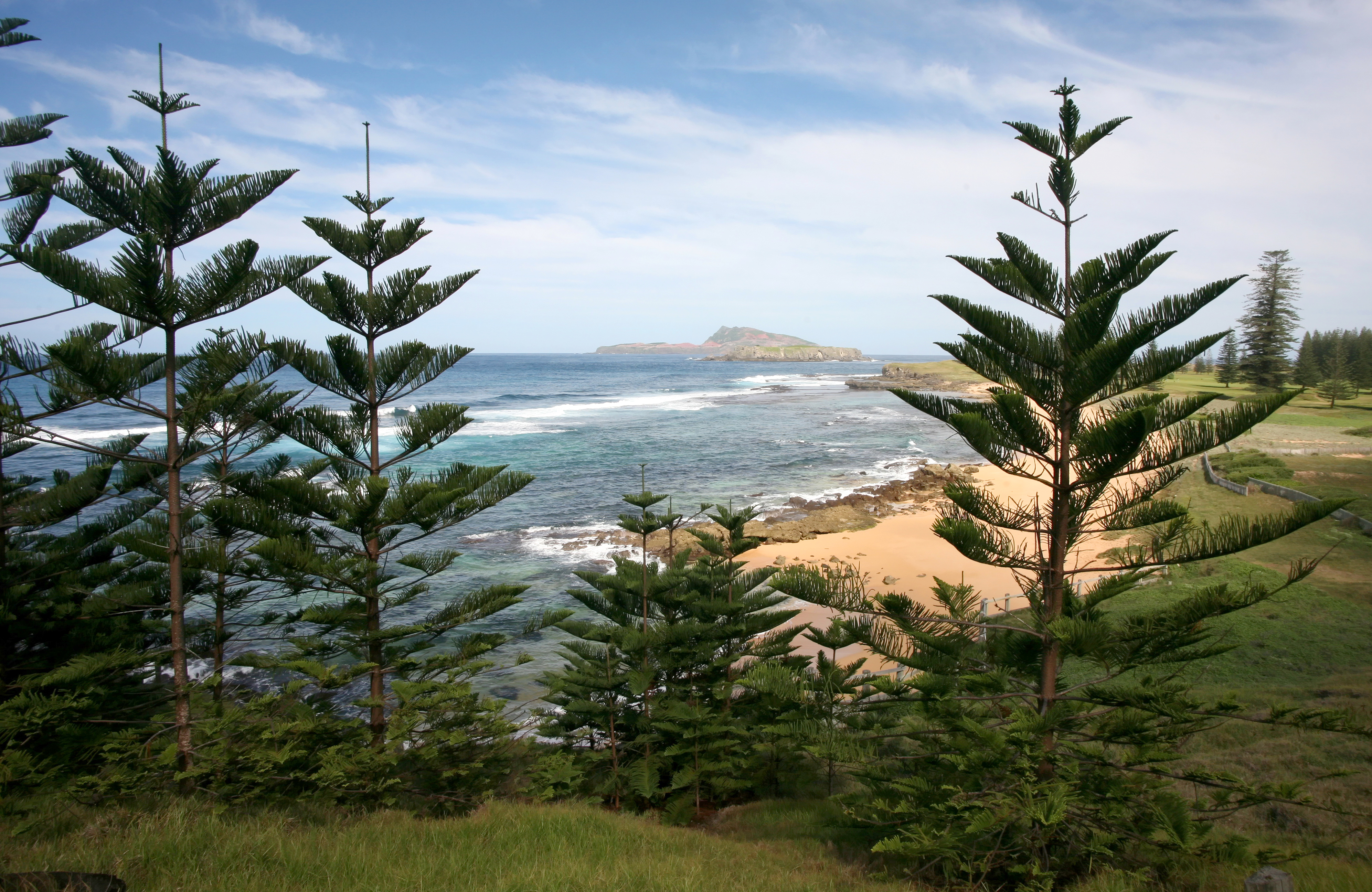 Norfolk Island Araucaria Araucaria heterophylla, Norfolk Island